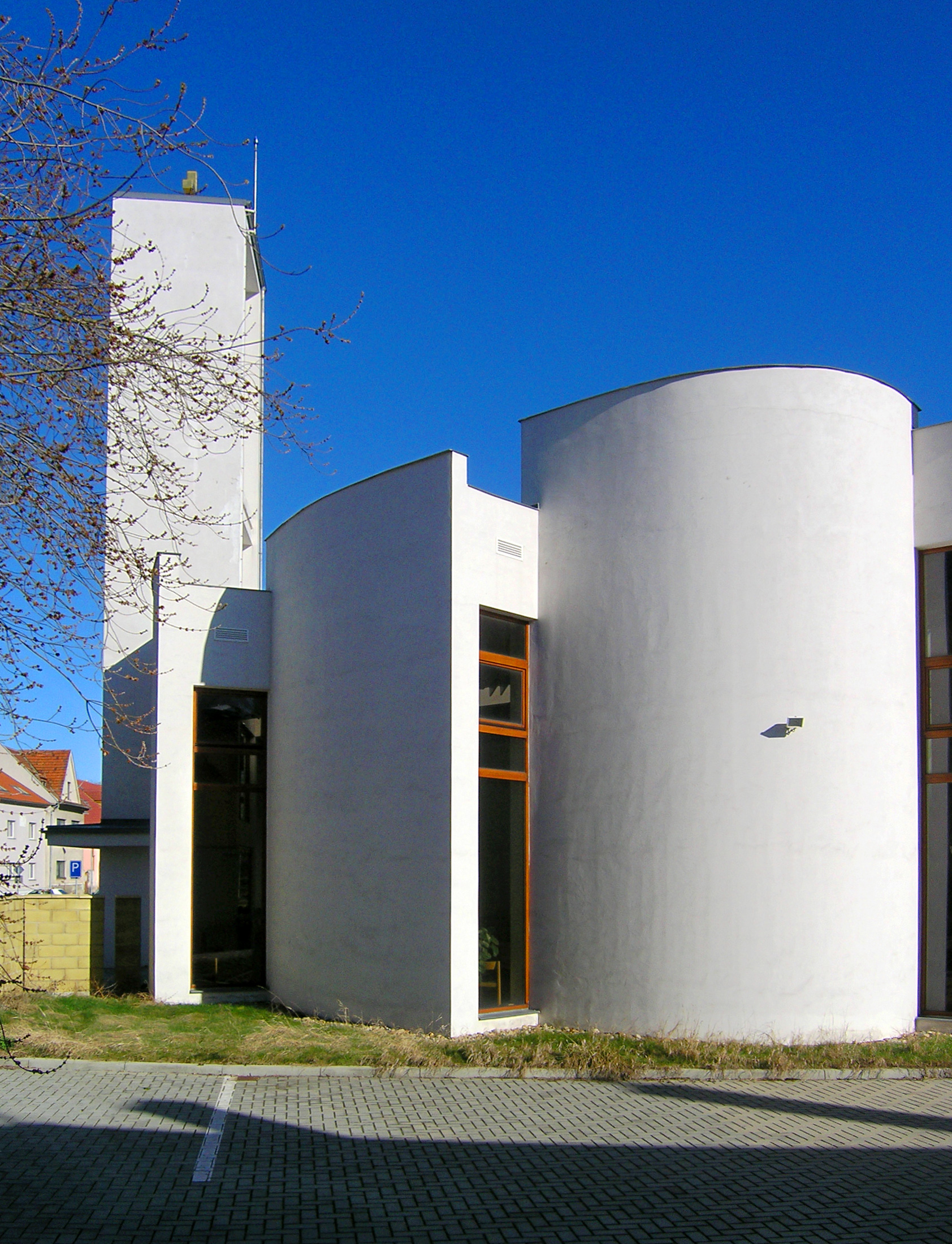 Saint Elisabeth Church at Železnobrodská Street in Kbely, Prague